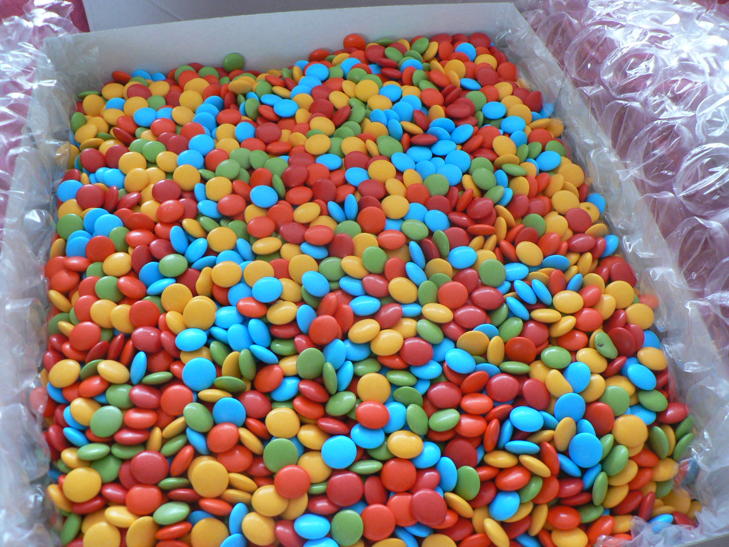 Chocolate dragées - given as a present to the visitors of a newborn in Flanders (Belgium)